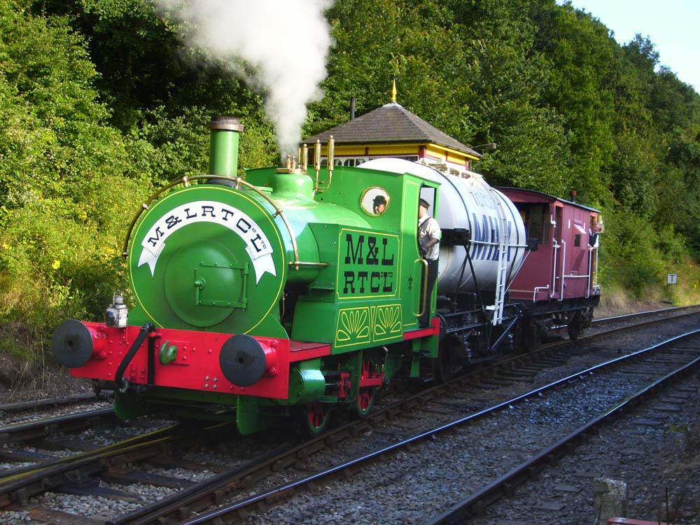 Ivor the Engine at the Battlefield Line Railway. Returning to Shackerstone Station after and evening staff special with the freight train.